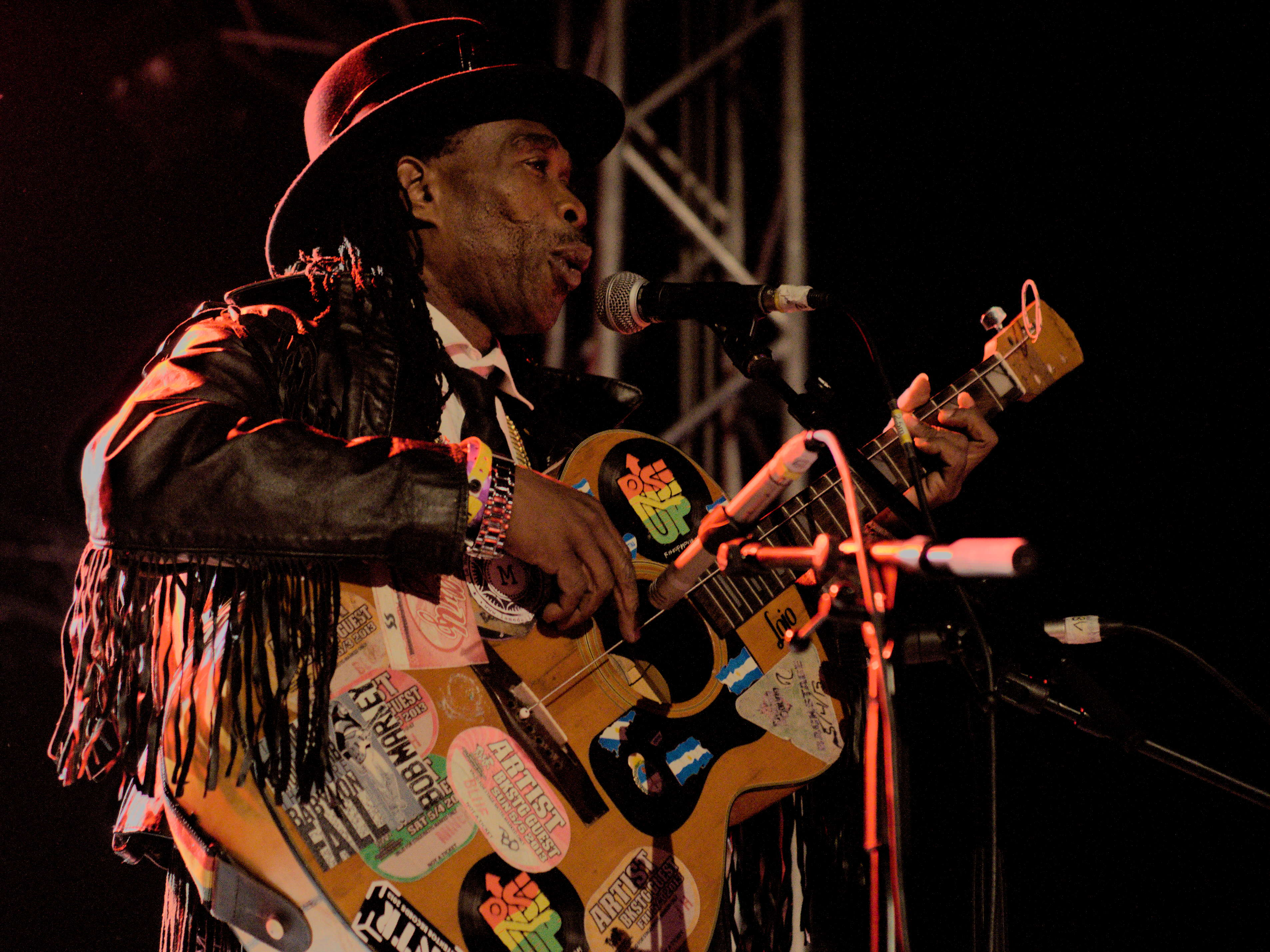 Rocktambule 2015 8 octobre